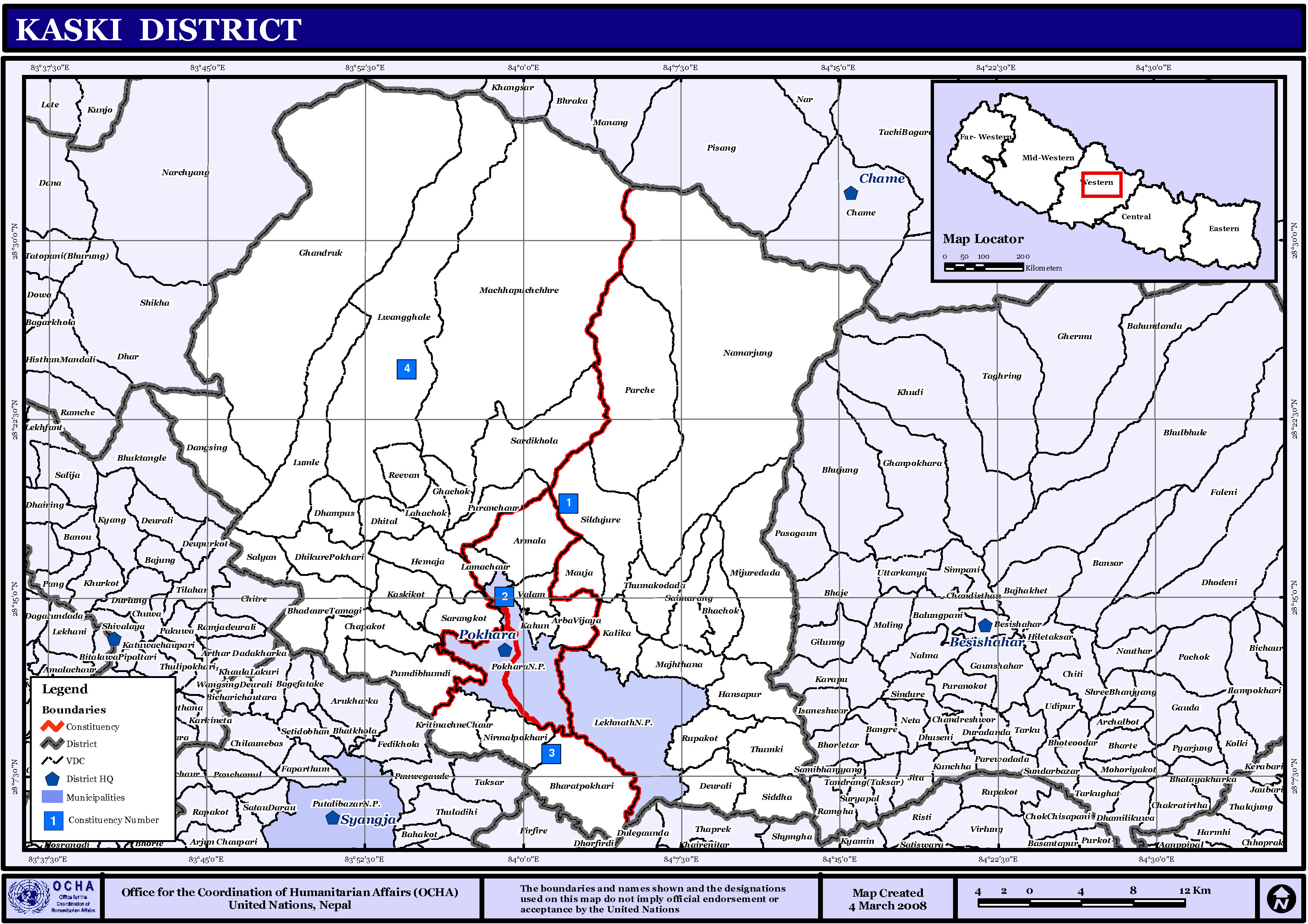 Map displaying Village Development Committees in Kaski District, Nepal